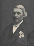 Portrait of Anders Petersen (1827 -1914).